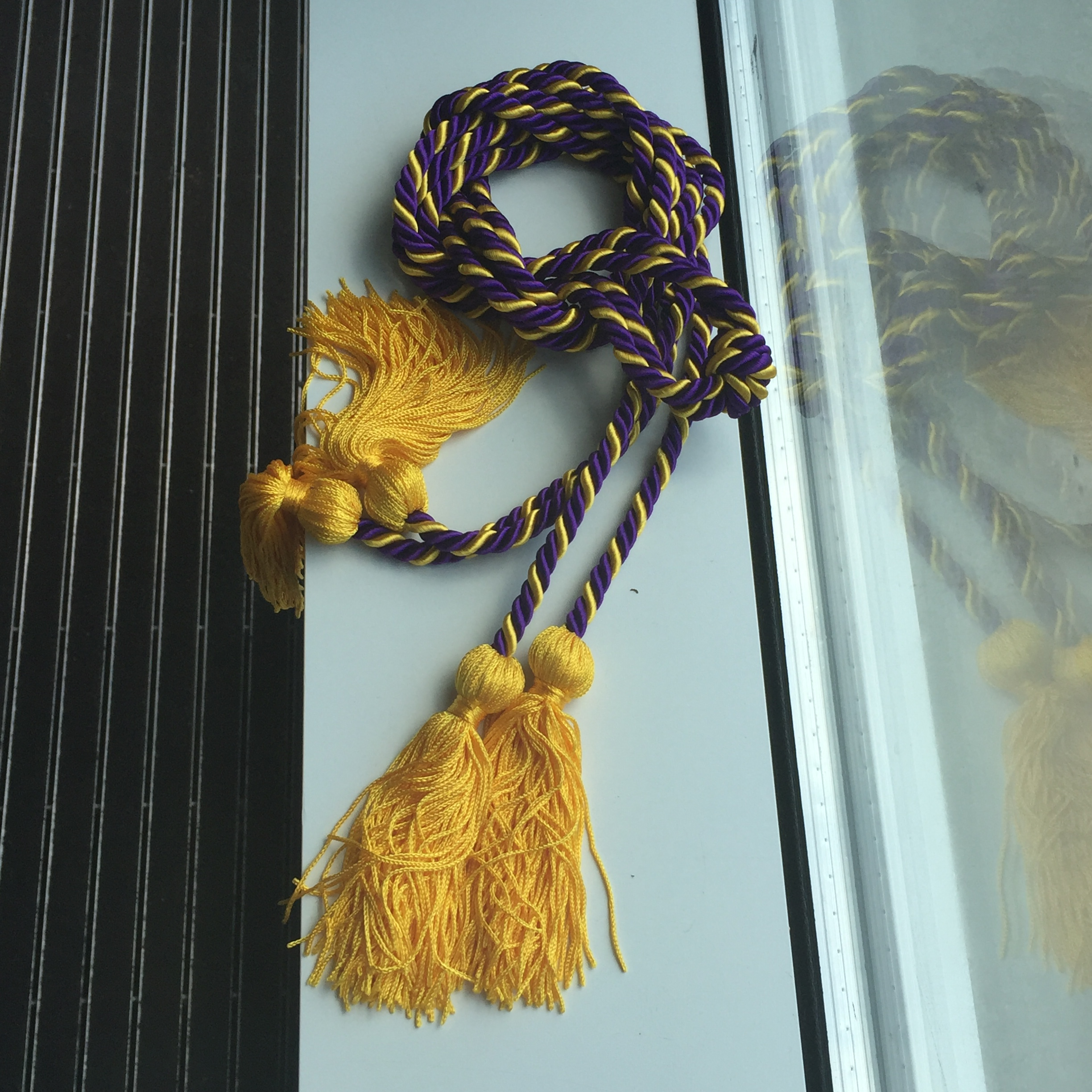 This core is present to all active members upon their traction to alumni membership.